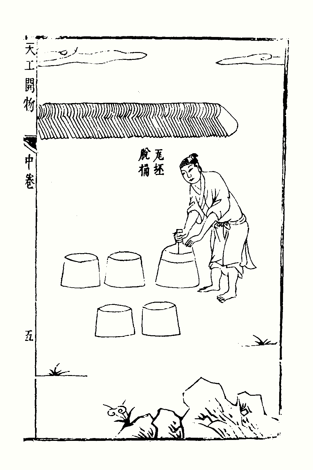 Making tiles